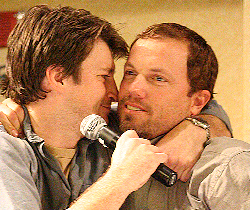 Nathan Fillion & Adam BaldwinNathan Fillion & Adam Baldwin @ the Flanvention